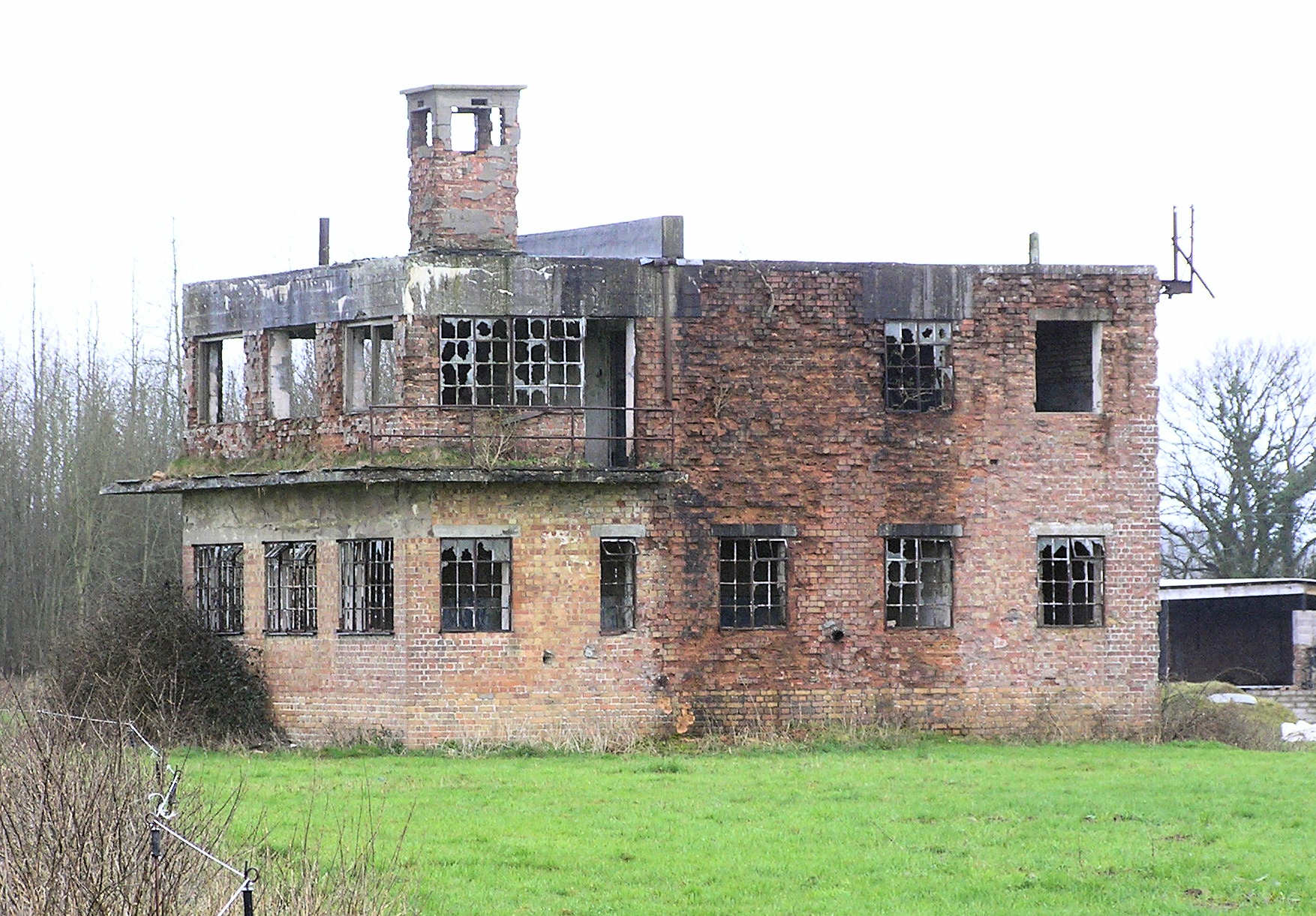 Control Tower, Charmy Down near Bath